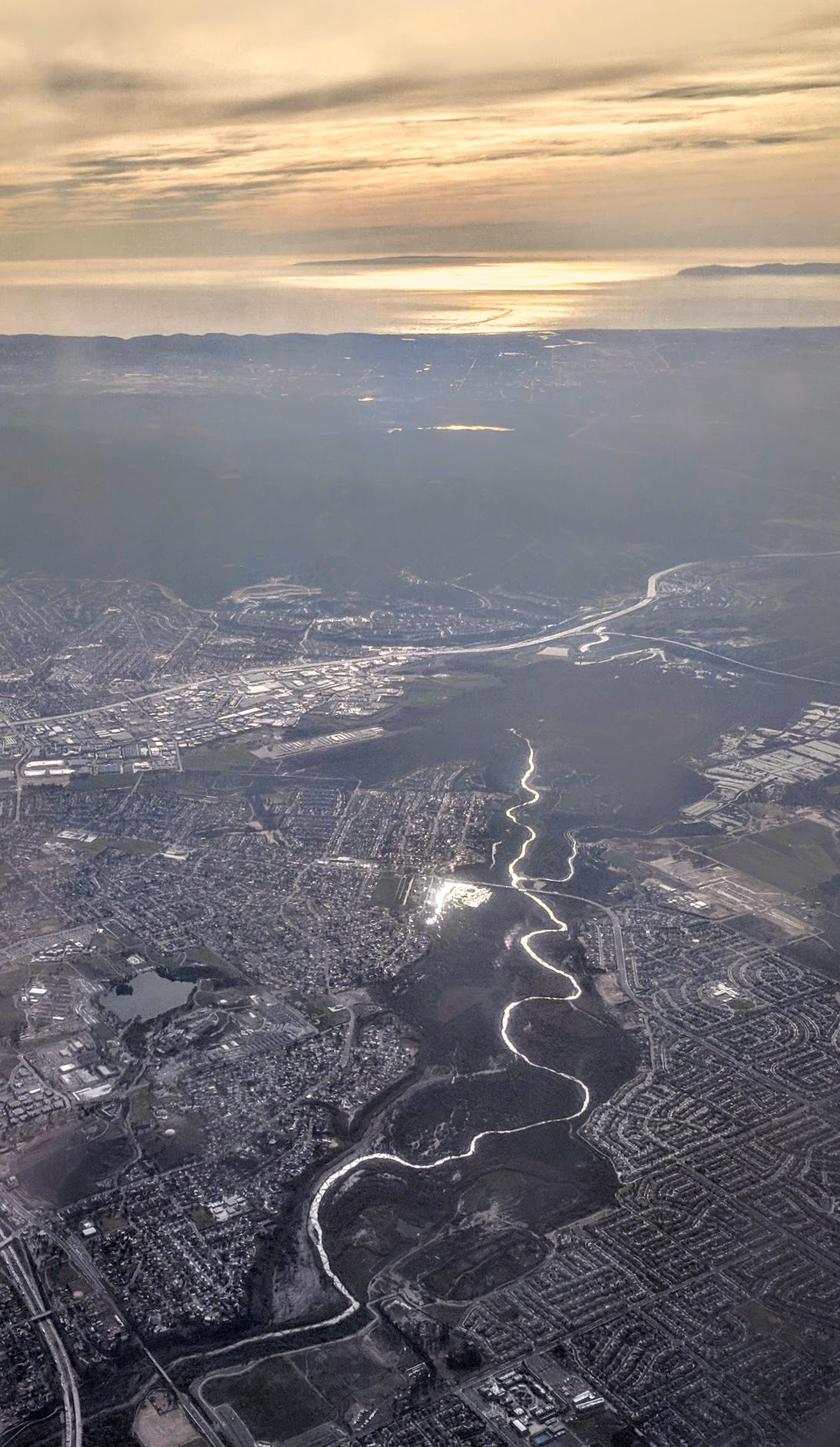 Aerial view of the Santa Ana River, looking into the afternoon sun, where the river forms the boundary between Norco and Eastvale, California, and flows into the Prado Flood Control Basin. The Prado Dam is just before the intersection of California highways 91 and 71 at the far side of the dark flood-control reservoir. The Pacific Ocean and Santa Catalina Island are visible in the distance. On the left, Lake Norconian at the Naval Sea Systems Command near Norco College is visible.